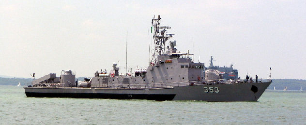 Source: Oeuvre personnelle Date: 31 octobre 2006 Auteur: Lastaval (Djebel Chenoua class corvette El Kirch (353) built by ECRN in Mers-el-Kebir and operated by the Algerian National Navy)